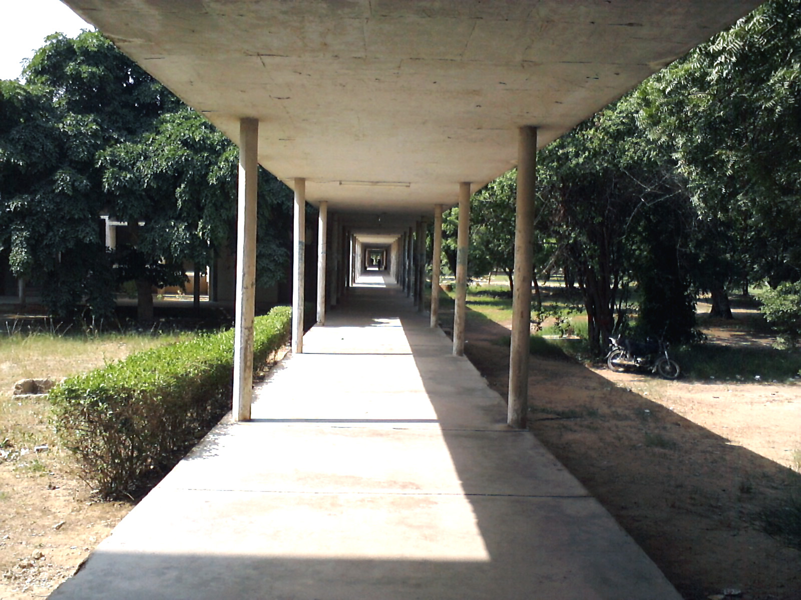 Way to Arts Lobby, Karachi University.